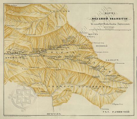 Map of Free Svanetia (1855)